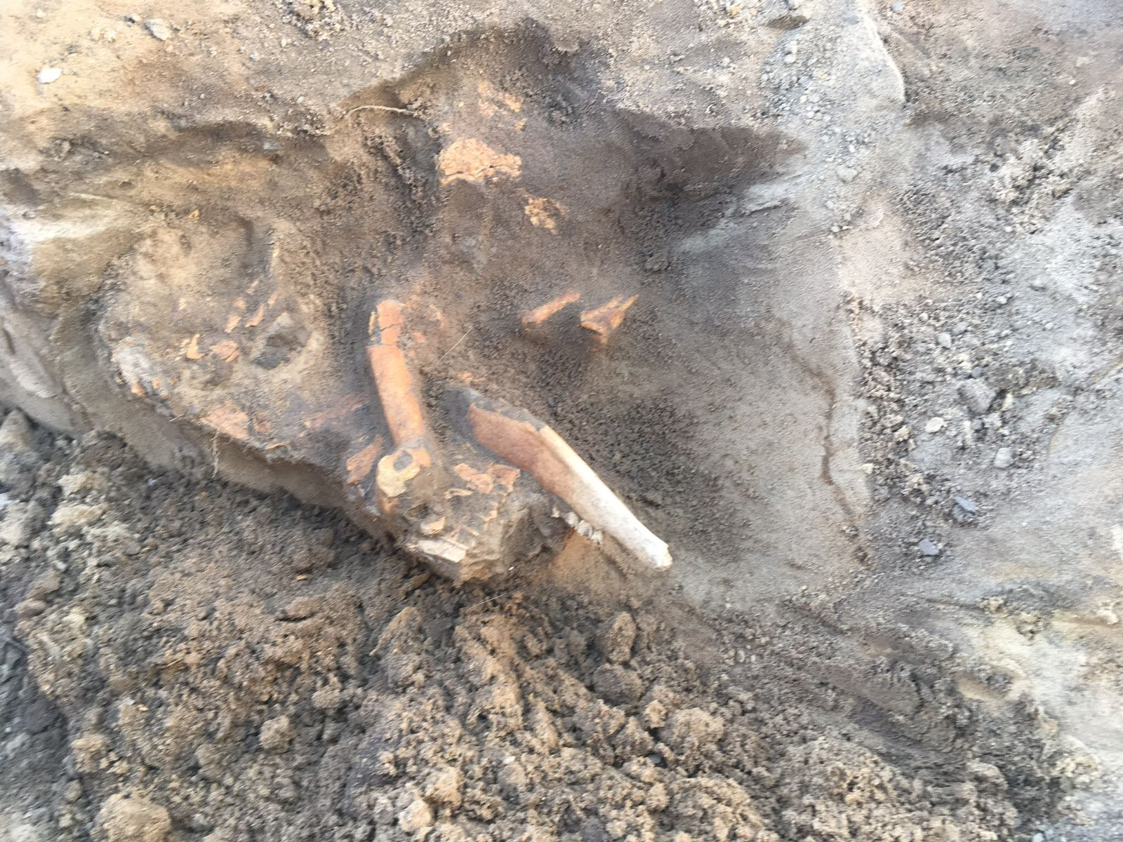 A picture of a goat mandible found in post hole A12 in the excavation of Endebjerg on Samso